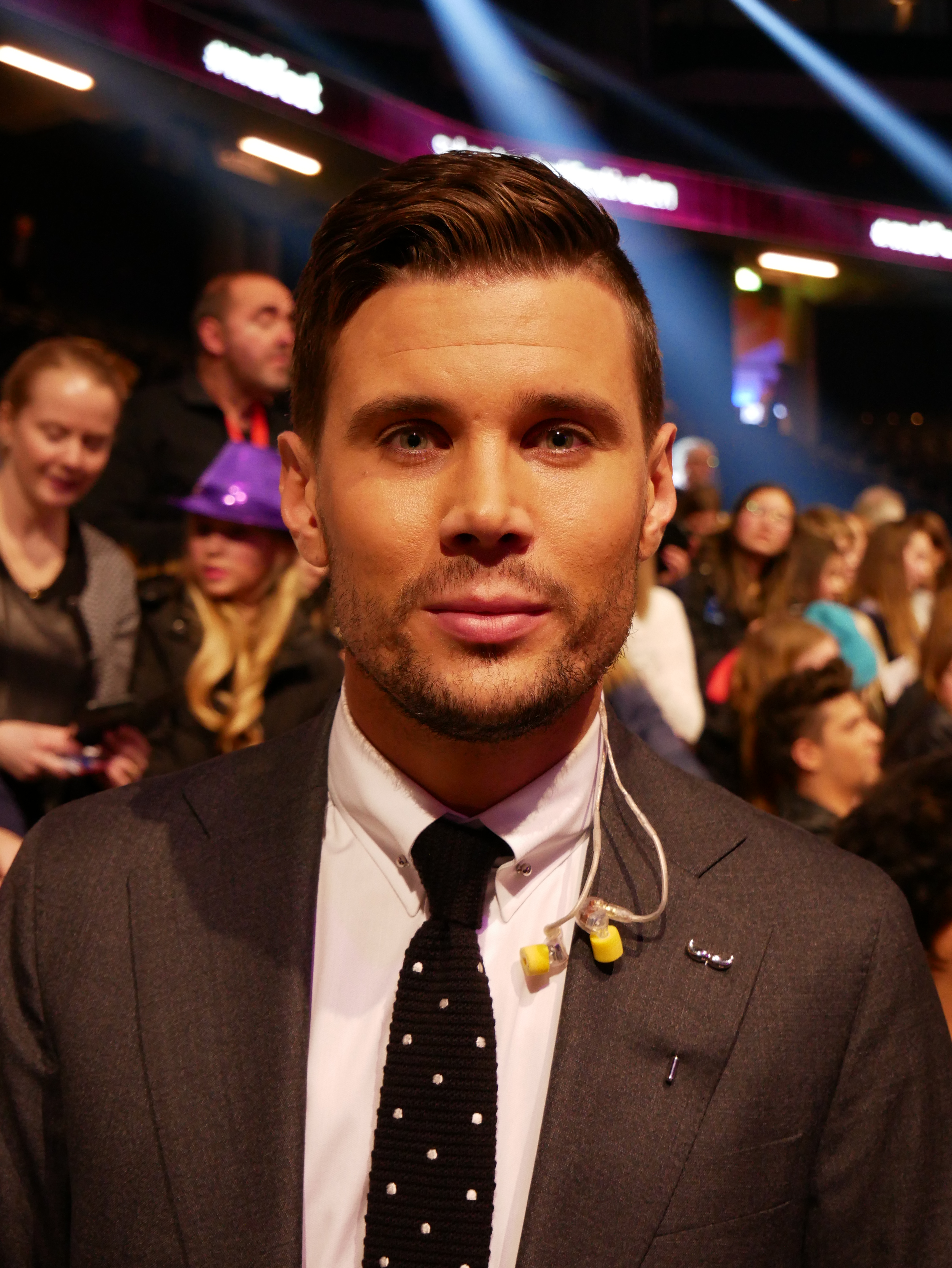 Melodifestivalen 2017, final Robin Bengtsson